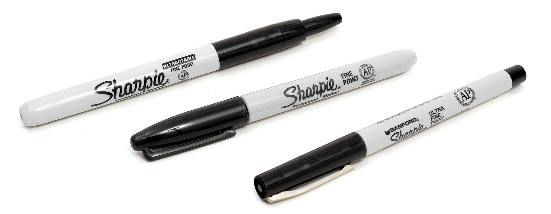 A variety of Sharpie-brand markers. A retractable, fine point and ultra fine point.